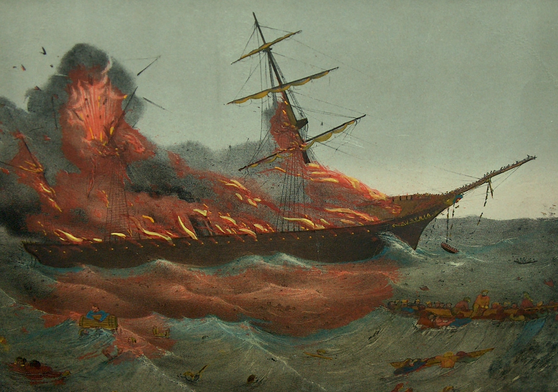 Hand-coloured lithography of the shipwreck of „Austria“ om 13 September 1858 when 453 people drowned while 84 were saved